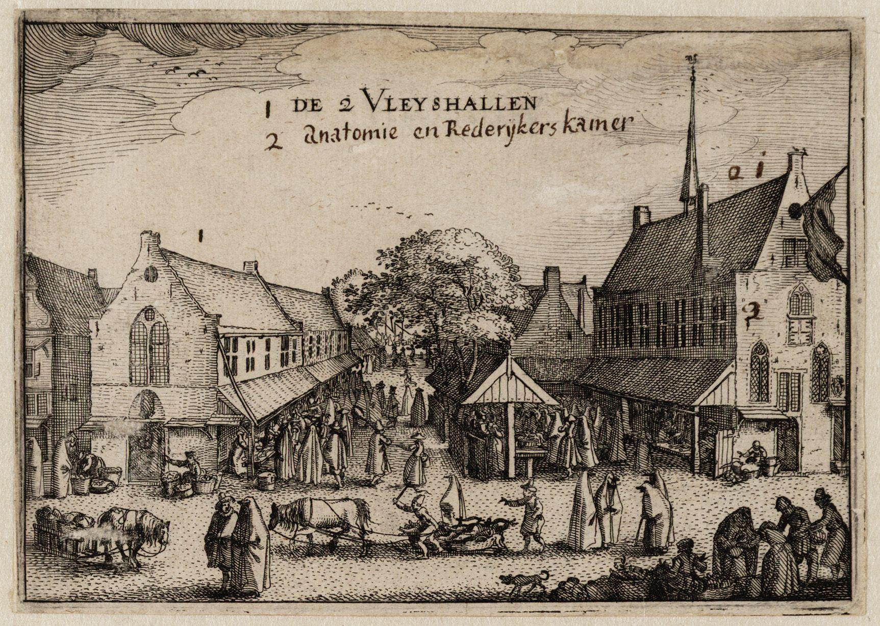 Grote and Kleine Vleeshal (meat markets), Nes, Amsterdam, with the fish market in between. Amsterdam, Stadsarchief Amsterdam (inv.nr. 010097002962).